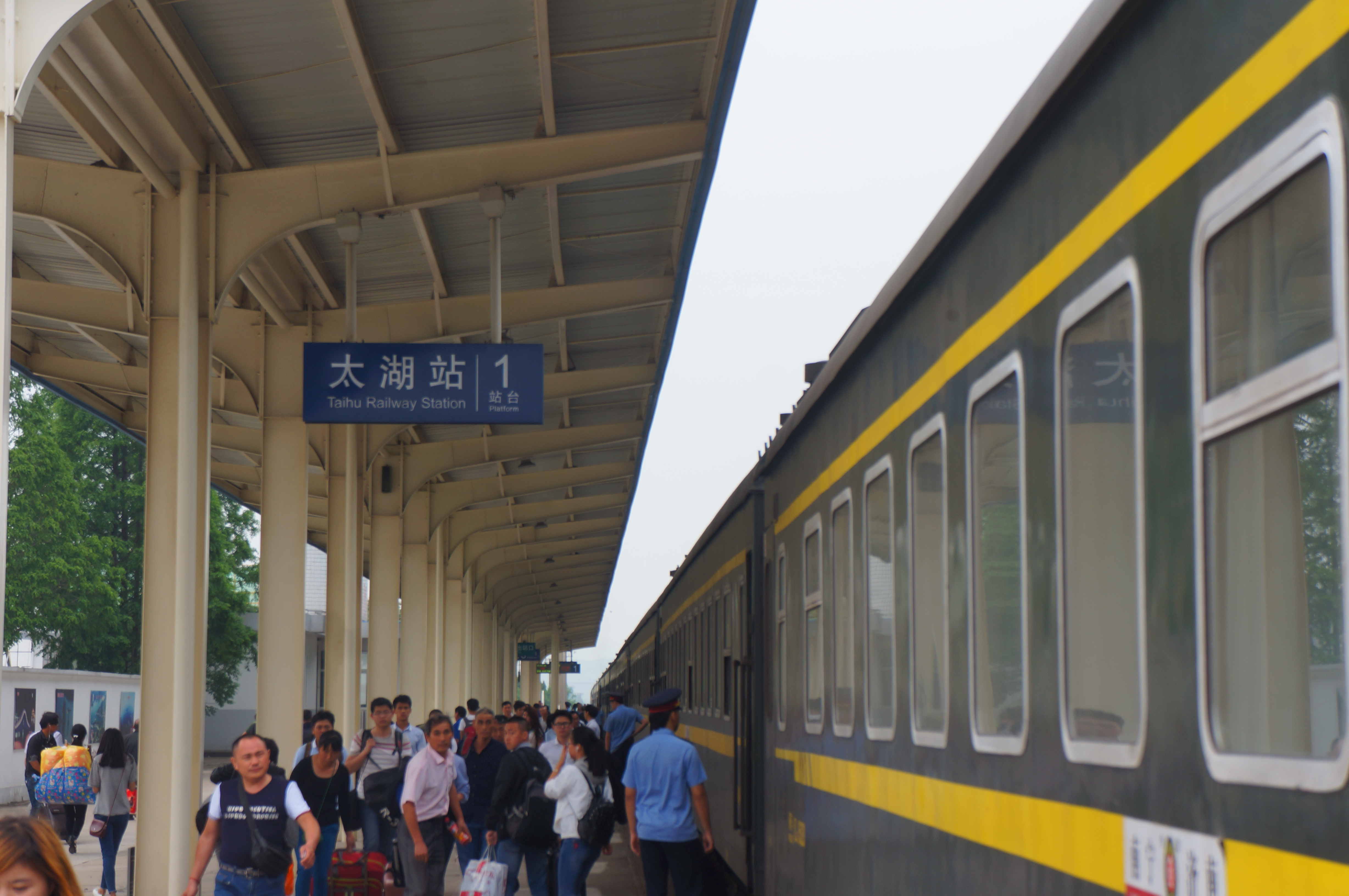 201705 Platform 1 of Taihu Station